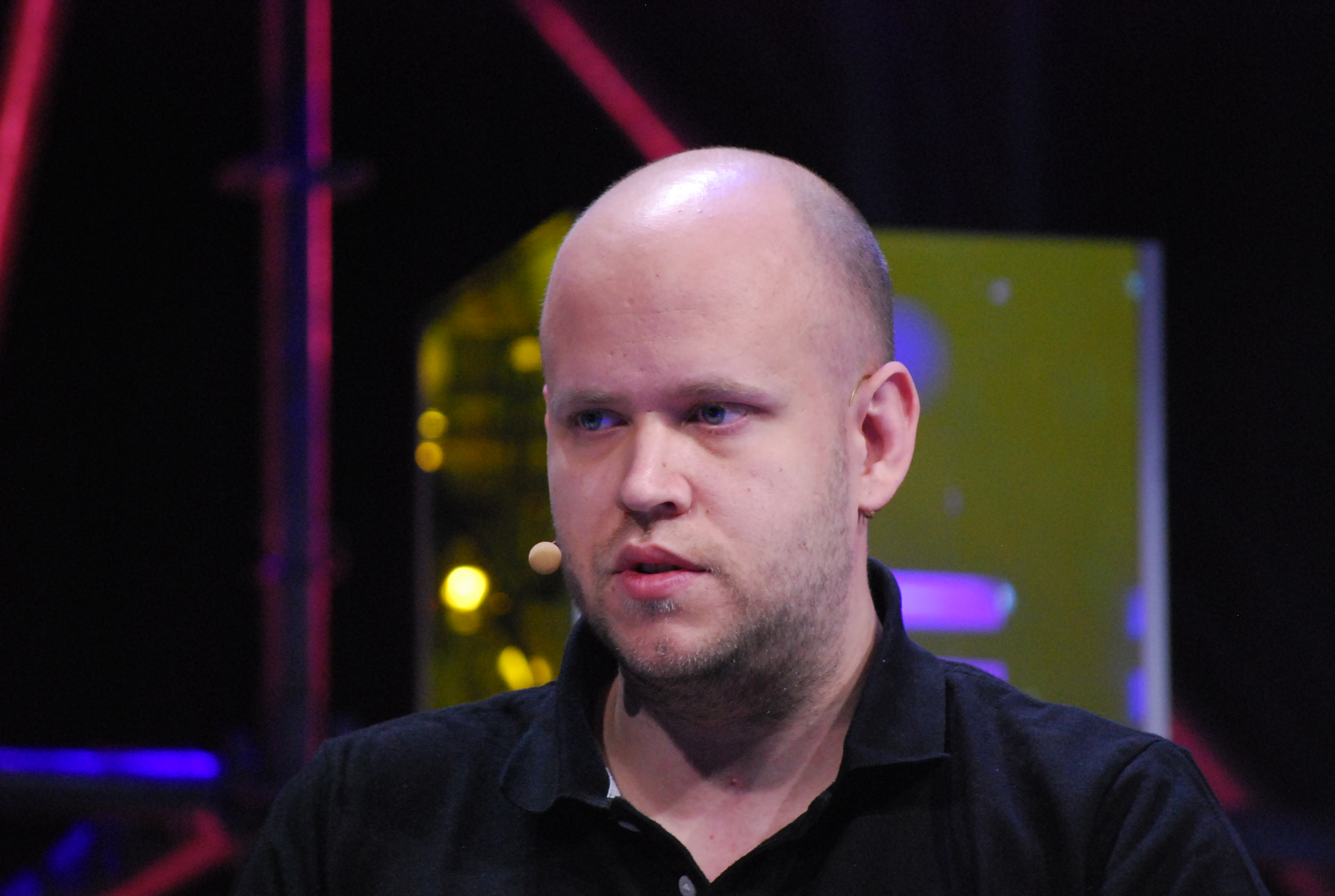 Daniel Ek